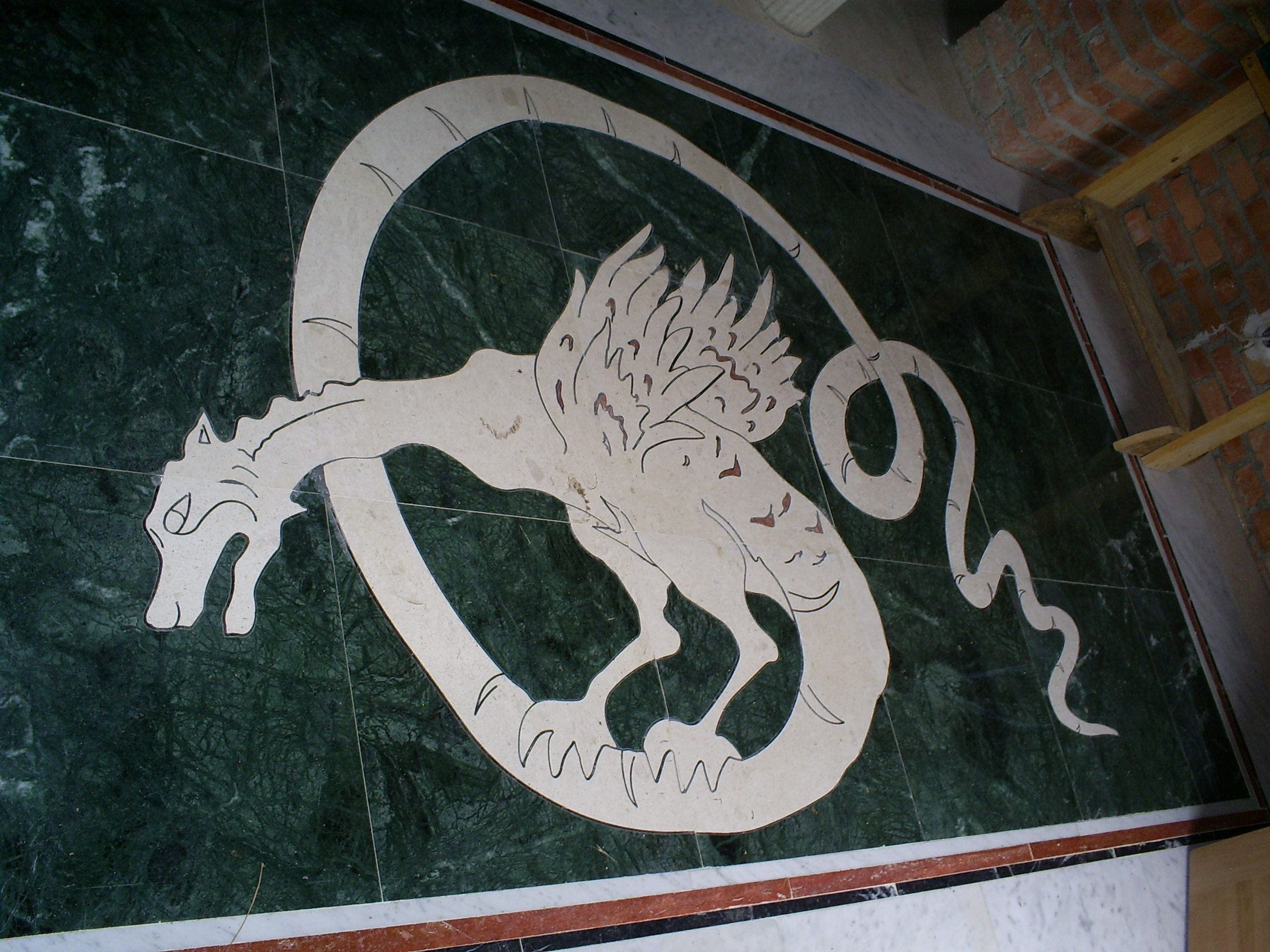 Dragon from so-called Prizrenski patos (Prizren flor) from Sveti Arhangeli near Prizren, in church of saint prince Lazar on Ljubić hill, above Čačak.